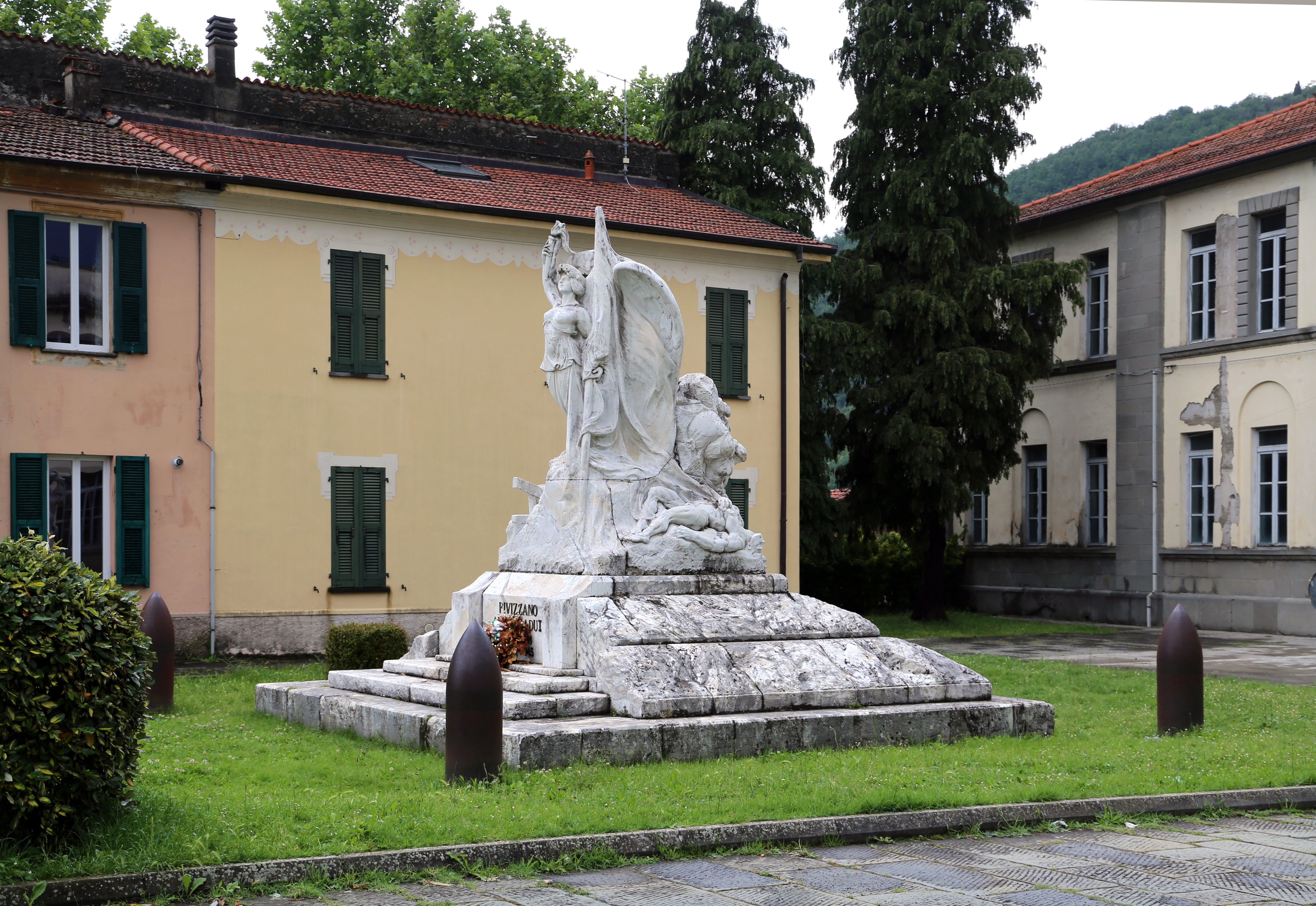 Fivizzano